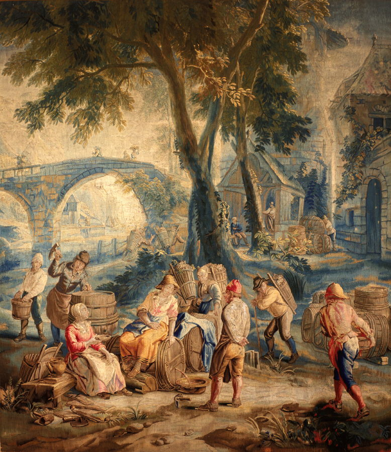 The Vintage